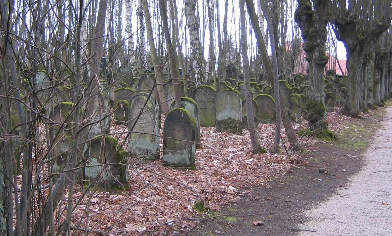 most ancient part of the jewish cemetery in Bayreuth